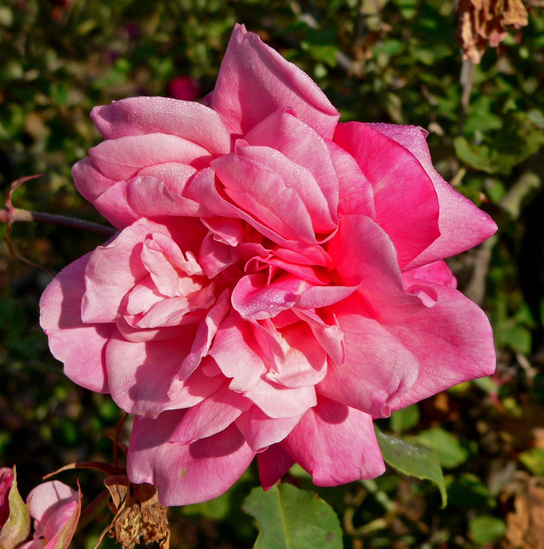 Photo of Rosa 'Archiduc Joseph' at the San Jose Heritage Rose Garden